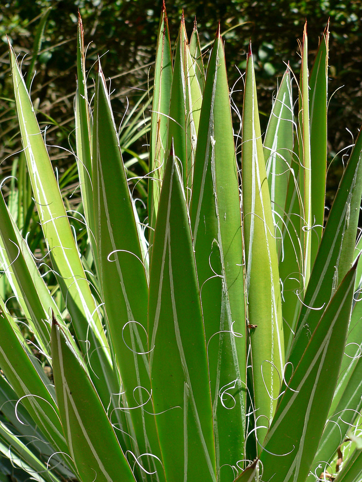 Agave filifera at the University of California Botanical Garden, Berkeley, California